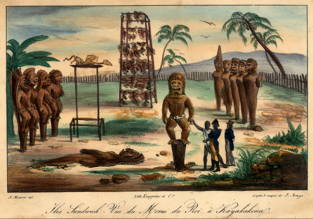 Iles Sandwich - Vue du Morai du Roi a Kayakakoua [Kayakakoua? Kealakekua or Kailua-Kona] drawn by Jacques Arago and by Maurin. *Marvelous image of a ceremonial reception of French Naval Officers in Hawaii, from Jacques Arago's rare account of Freycinet's travels around the world from 1817 to 1820. First published in 1822, Arago's account met with much success. This plate is newly drawn by N. Maurin after the orginal sketchbook by Jacques Arago, who had become blind.